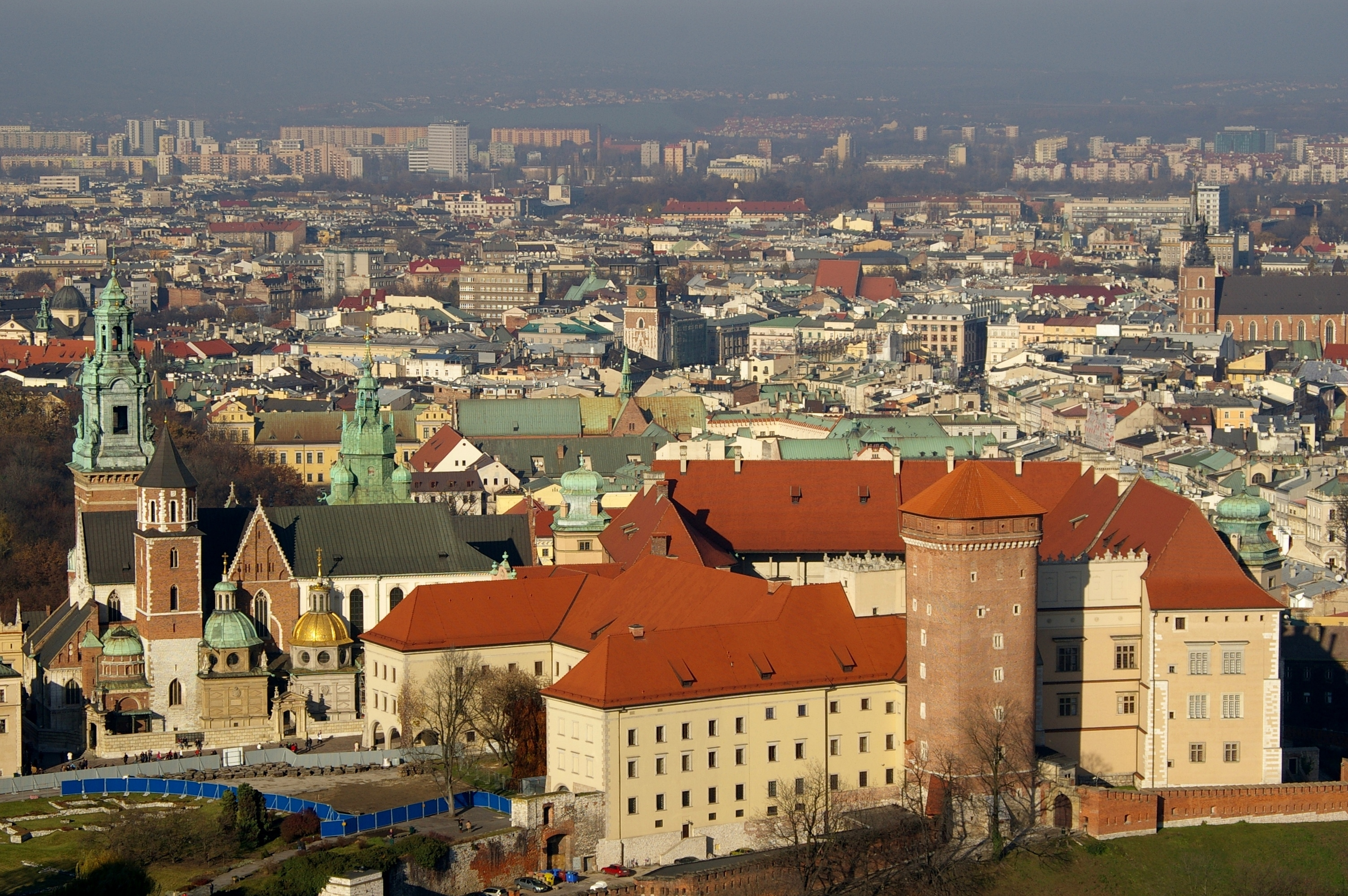 View on the Wawel Hill in Kraków from the sightseeing balloon